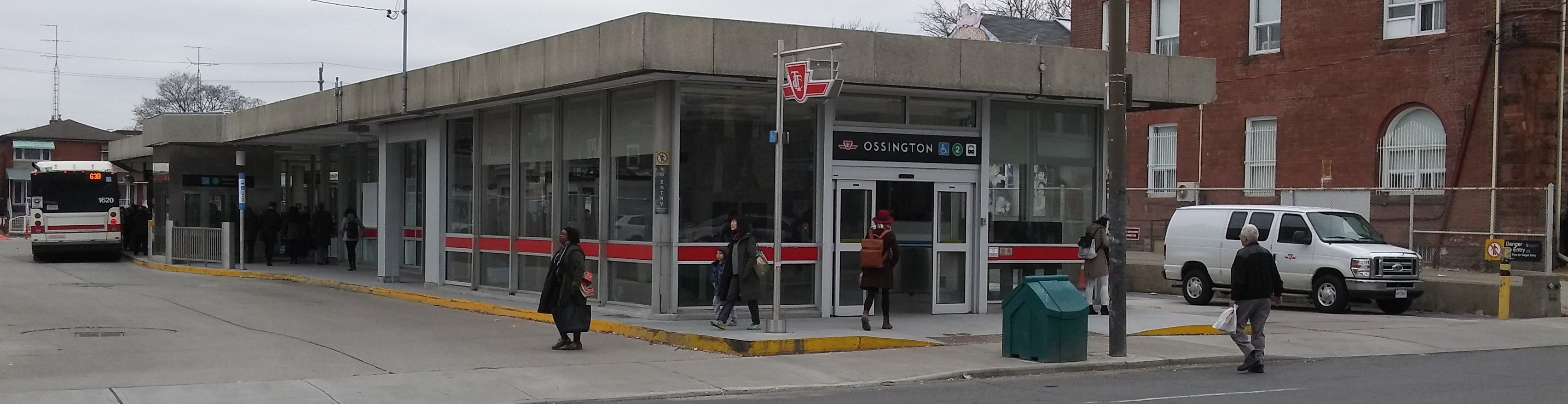 The Ossington subway station in Toronto, Canada.